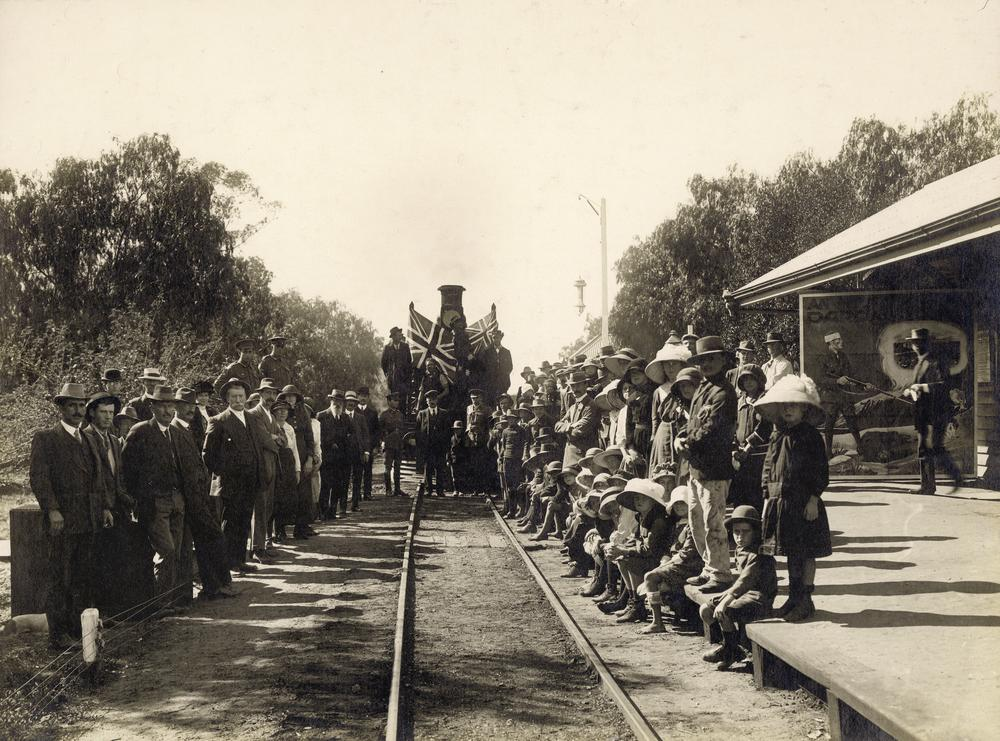 Recruiting train at Wallumbilla Railway Station, ca. 1915 Soldiers riding on an flag-draped locomotive on the tracks. Throngs of residents are a the station to meet it.